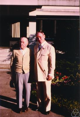 Mathematicians Otto Volk (left) and Eduard Stiefel (right) in Oberwolfach, 1978.